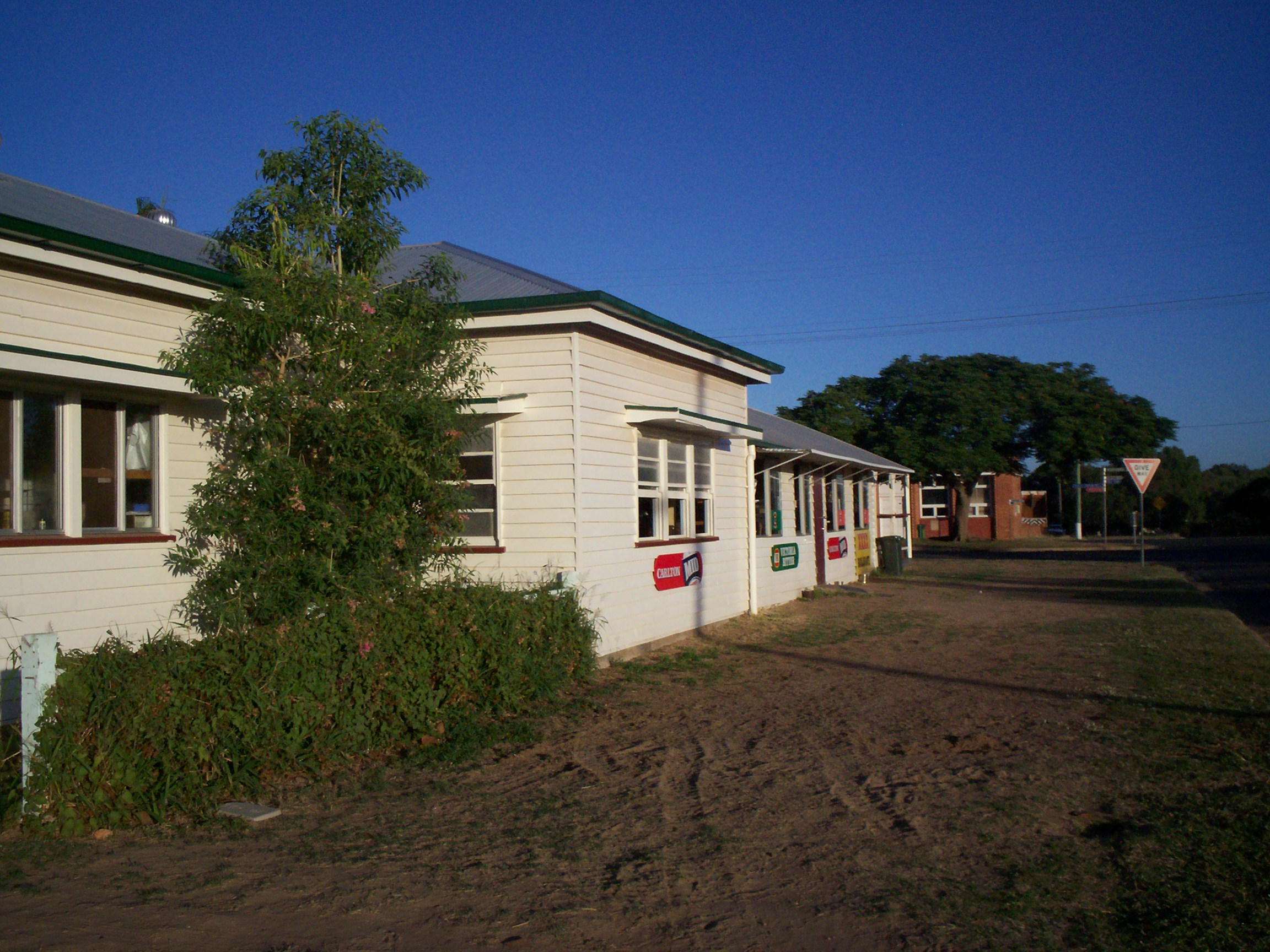 The Baralaba Hotel in Baralaba, Queensland. Photograph taken by myself, May 9, 2007.